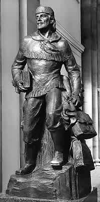 statue of Marcus Whitman at NSHC